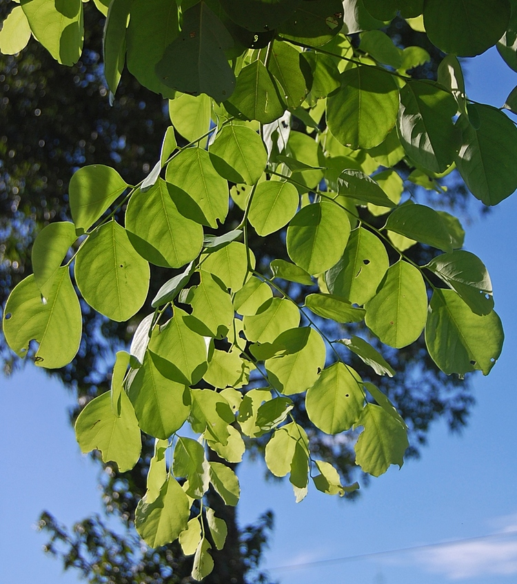 Dalbergia latifolia leaves. Bogor, West Java, Indonesia.